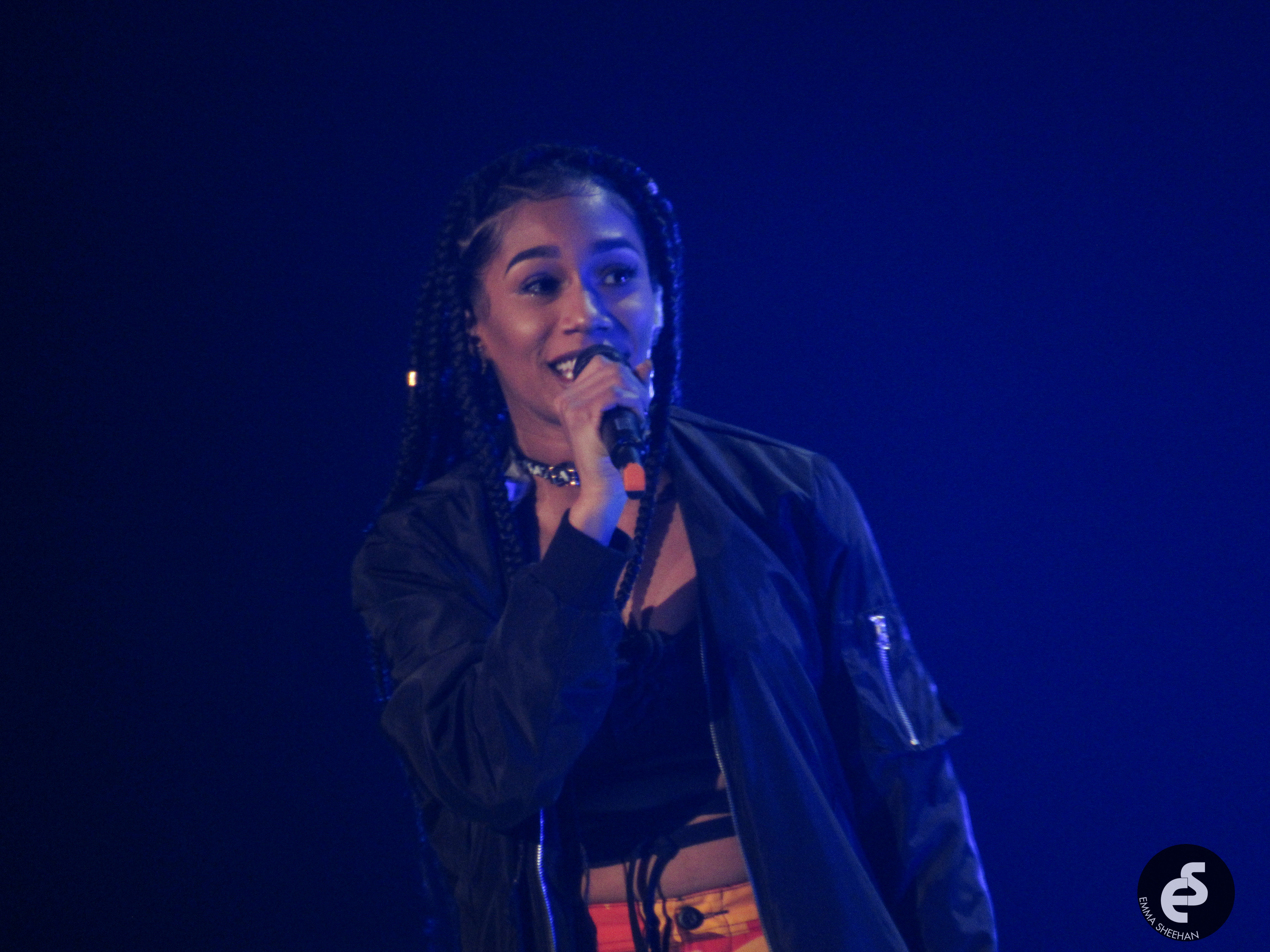 Dangerous Woman Tour 2/19/17 BIA performing during Dangerous Woman Tour in Manchester, New Hampshire, SNHU Arena, on February 19, 2017.